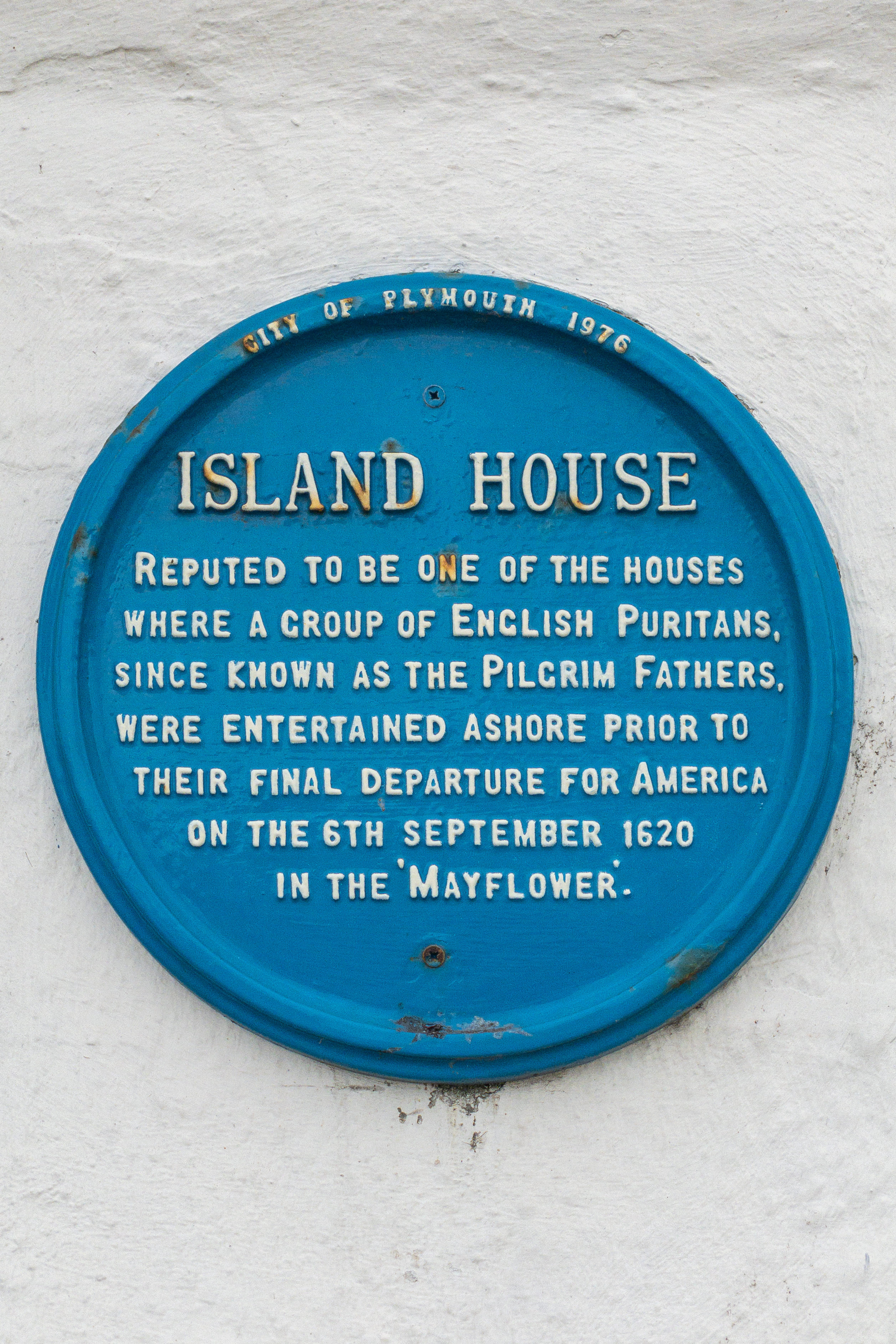 Blue plaque commemorating Island House as visited by the Pilgrim Fathers on the Barbican, Plymouth.